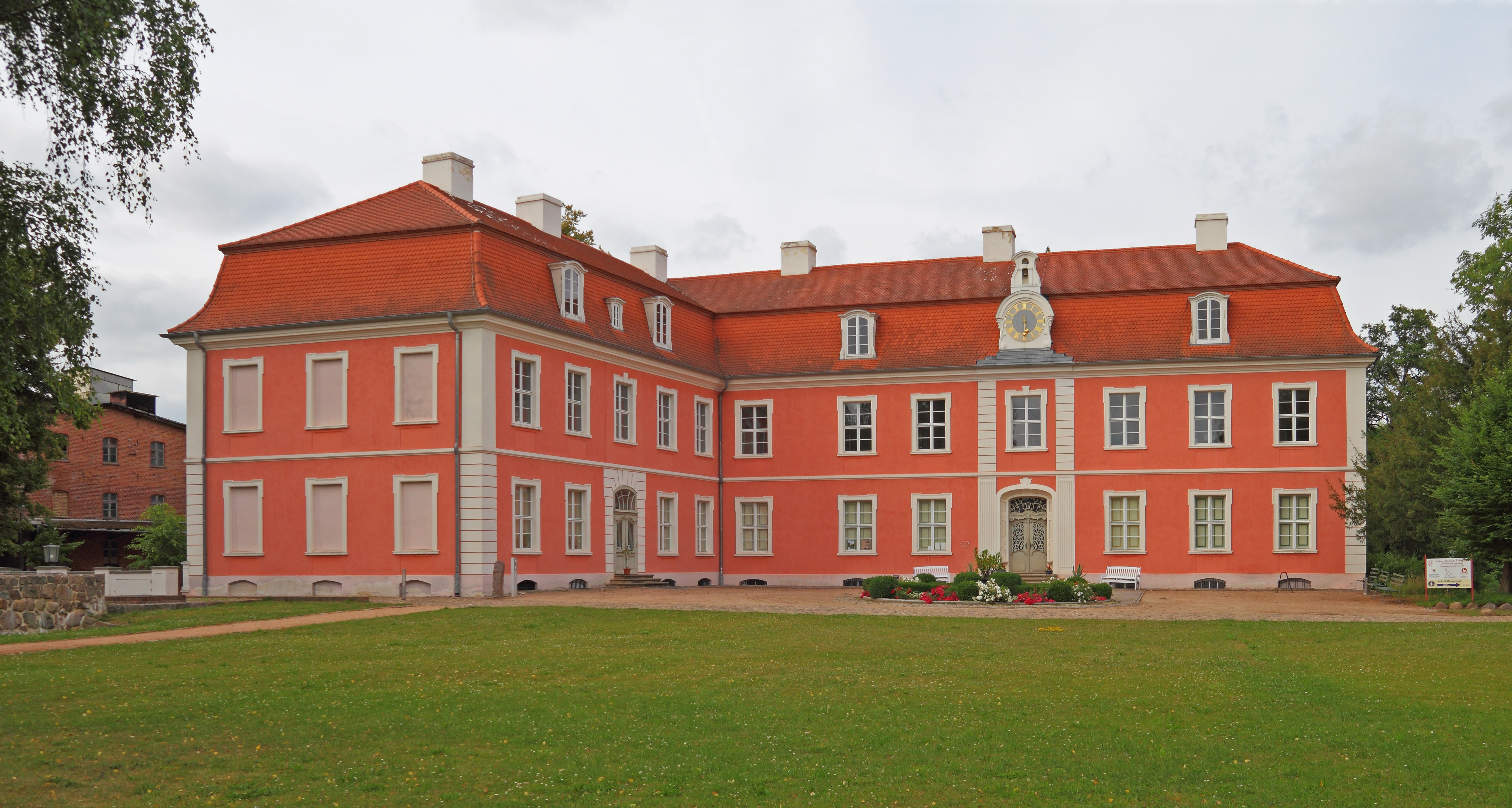 Wolfshagen Manor in Groß Pankow, Brandenburg, Germany